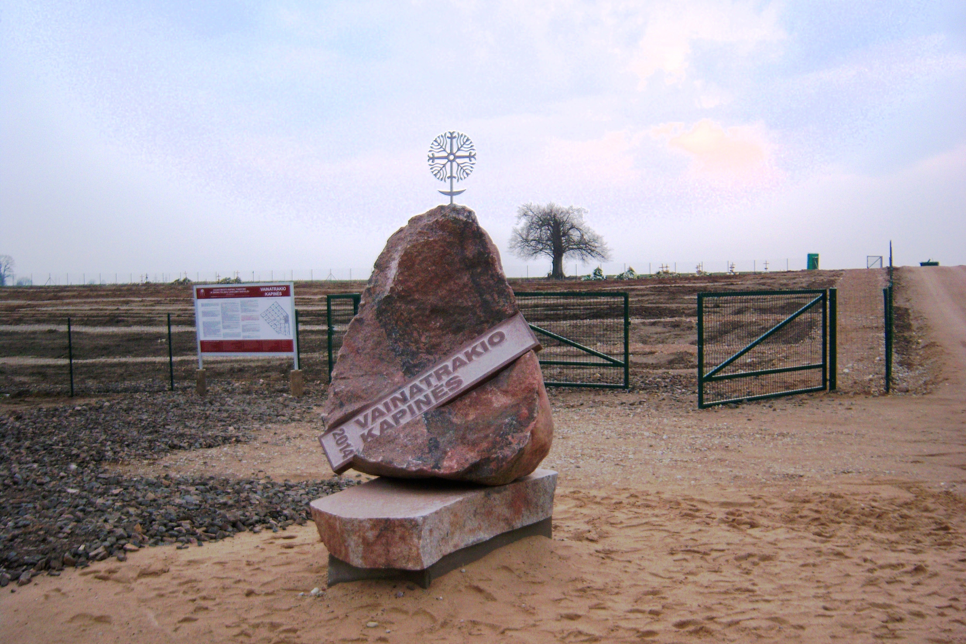 Vainatrakis cemetery, Kaunas district. Lithuania